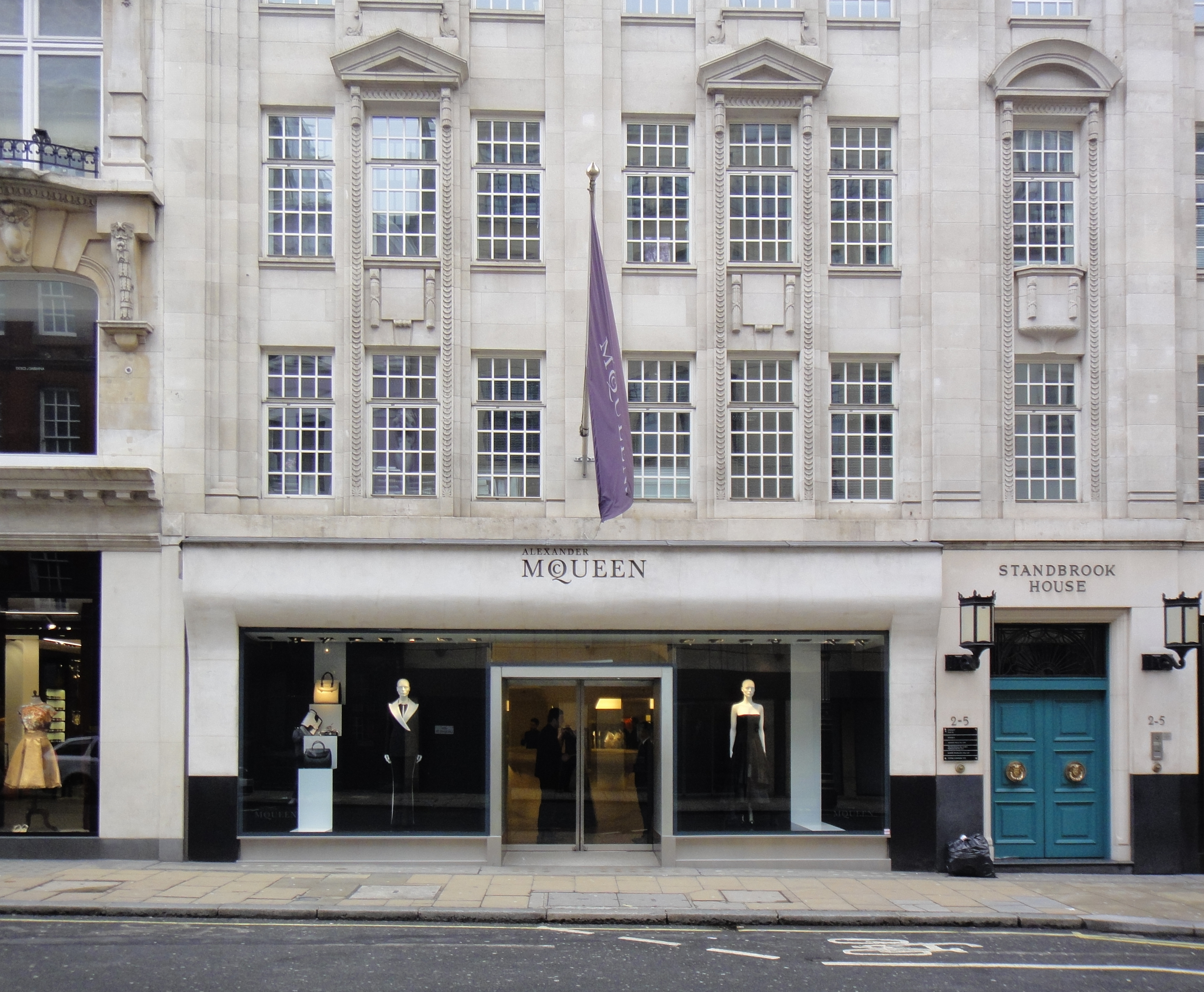 Alexander McQueen fashion shop on Old Bond Street, London